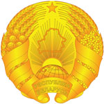 The Coat of Arms of Belarus